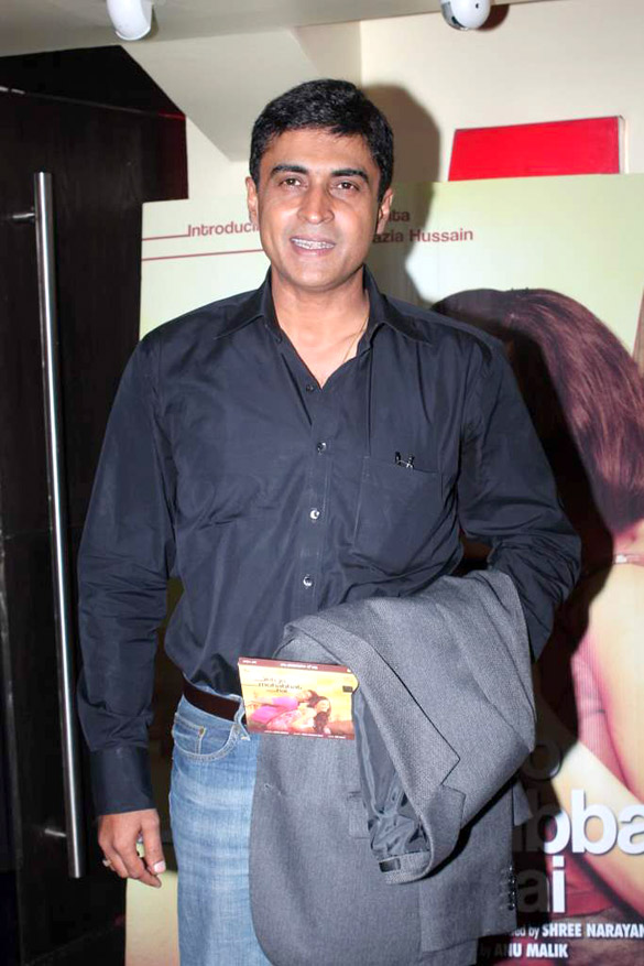 Mohnish Bahl at Yeh Jo Mohabbat Hai premiere